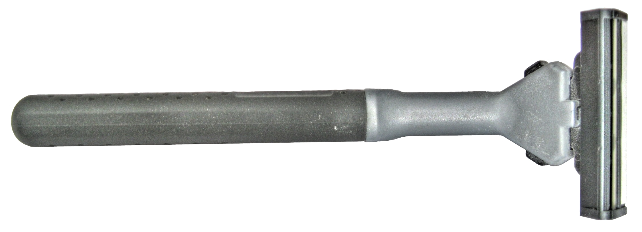 Systemrasierer 2 Klingen